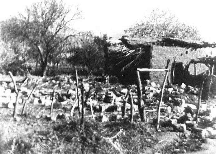 Al-Khisas house demolished in Palmach attack. 18th December 1947